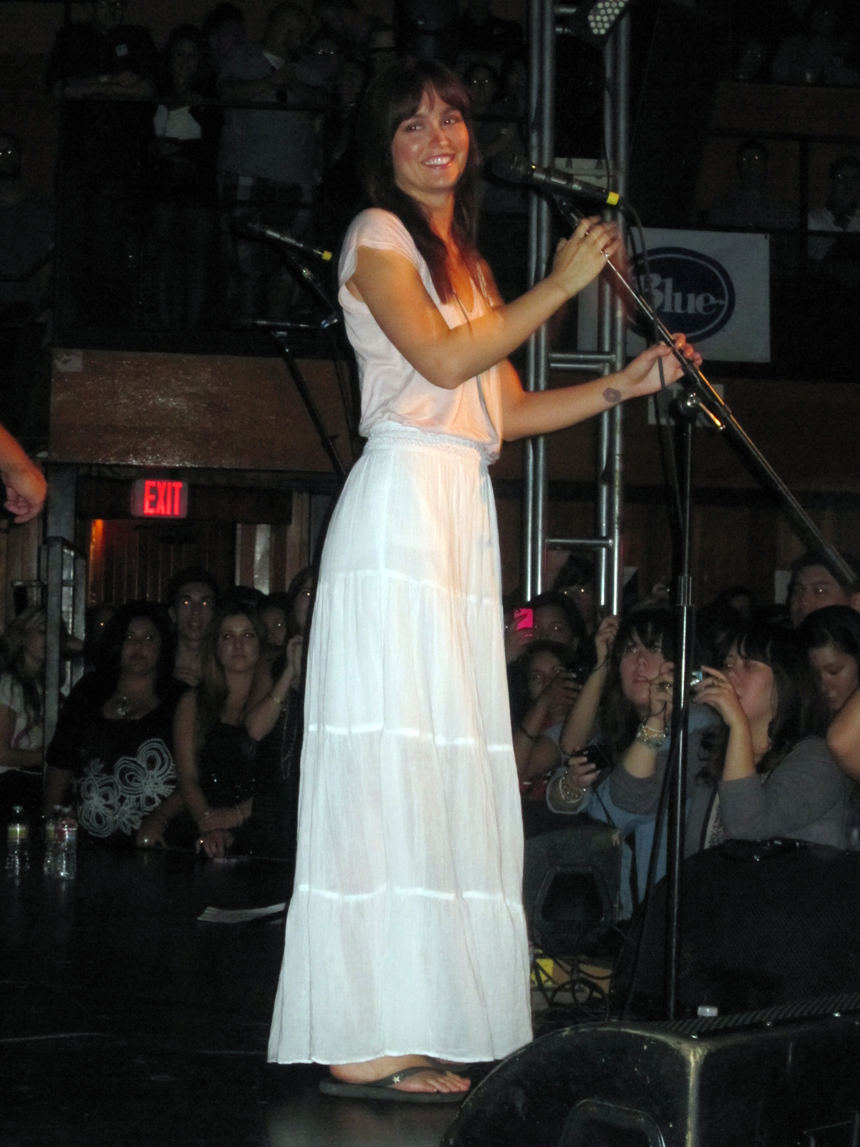 Leighton Meester performing at the Troubadour in Hollywood, CA